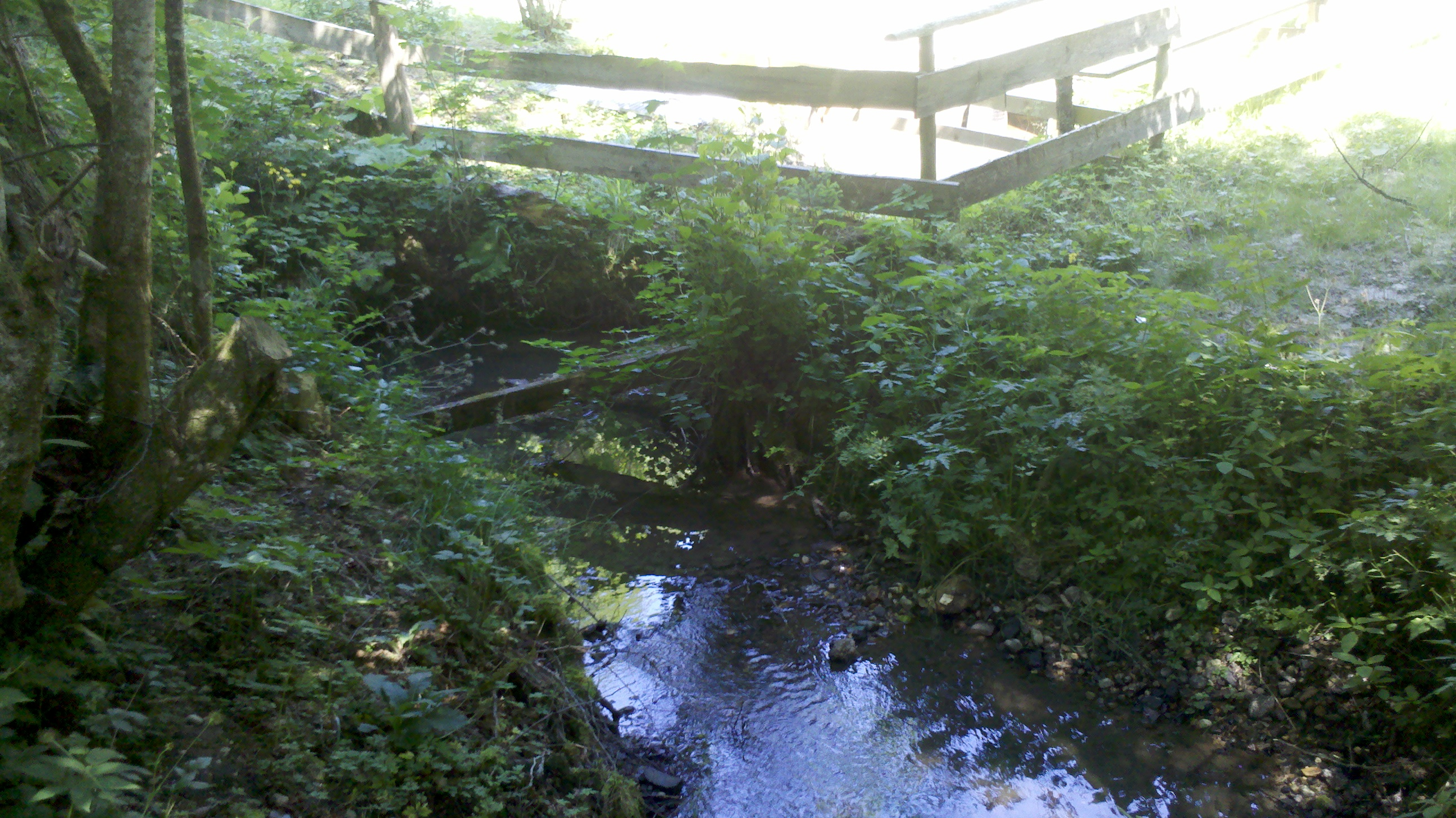 Steinbach (Steingraben) north of Taubenberg close to Steingräber